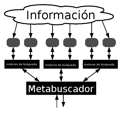 meta search engine